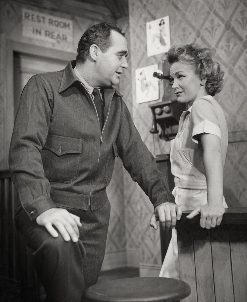 James "Jim" Nolan & Winifred Ainslee in the William Inge's play Bus Stop, american tour - publicity still (cropped)